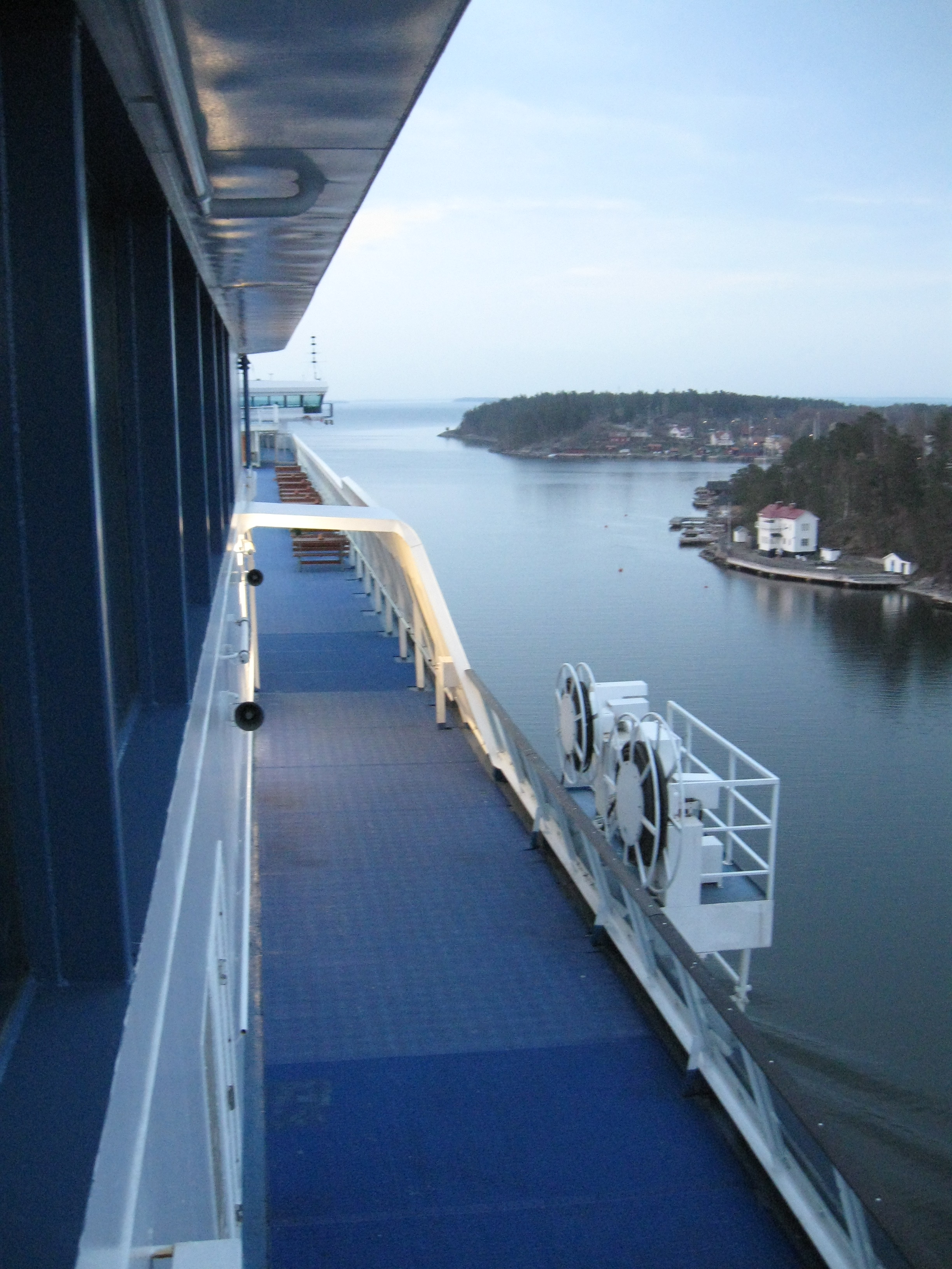 The upper deck of a Silja Line ship.